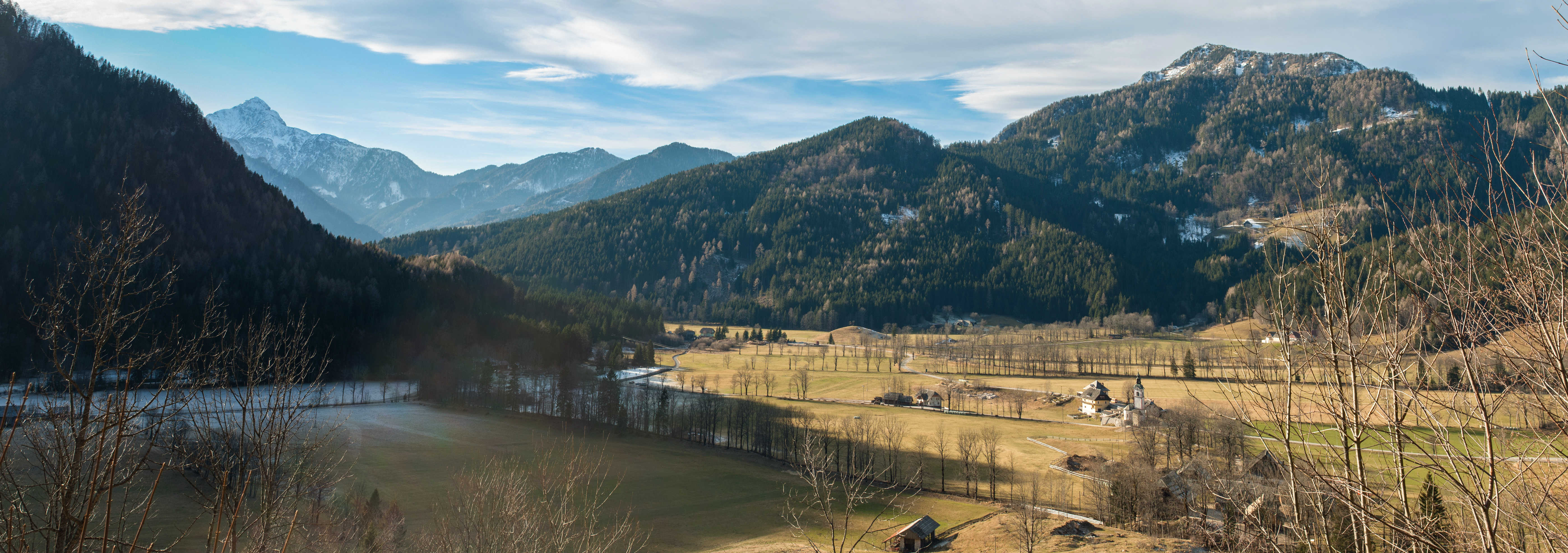 Jezersko